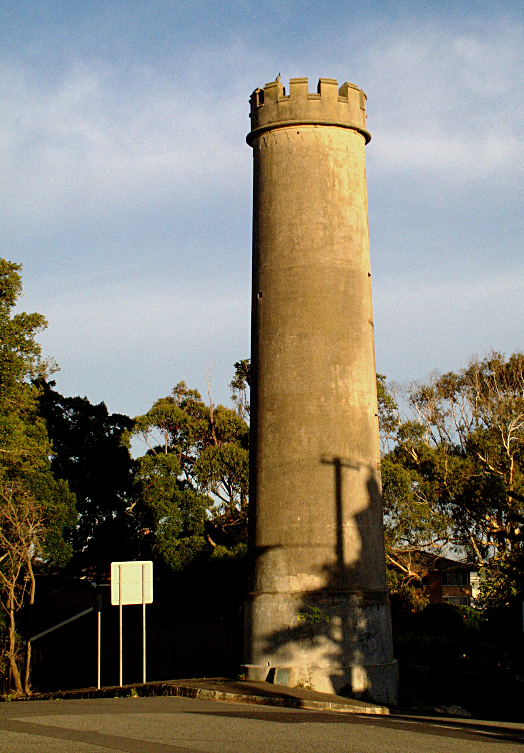 Beacon tower in Newcastle, New South Wales, Australia - Originally 7 metres high it was extended to 20 metres in 1877 after the light had been obscured by the erection of a Wesley Parsonage. National Trust - Lantern from original tower at the top. Many years ago public could ascend to top of tower to admire view but doorway has since been blocked up.